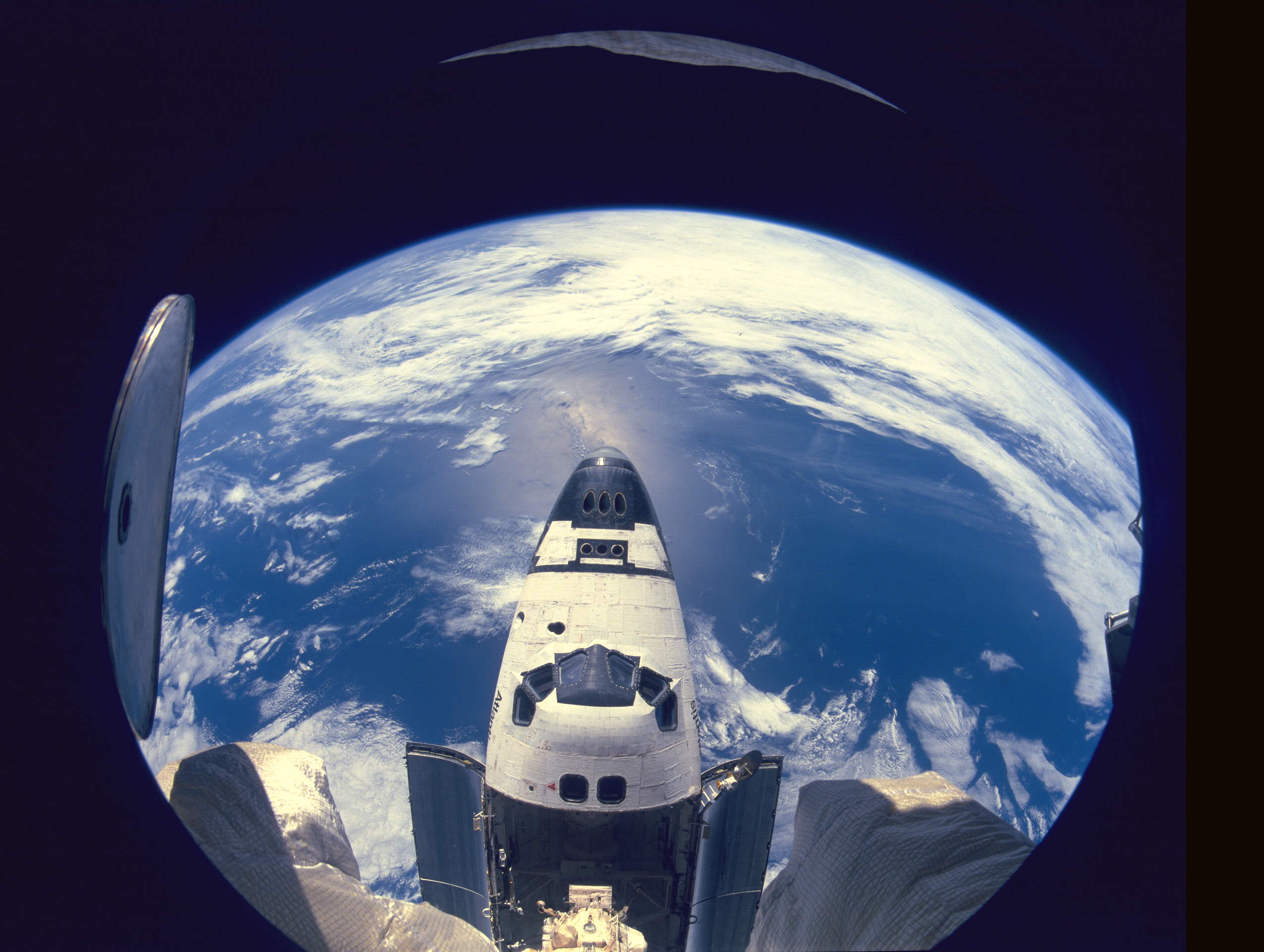 Space Station Mir - Space Shuttle Atlantis, backdropped against Earth, during the docked operations of the STS-71 mission, the first Shuttle mission ever to dock with Mir.